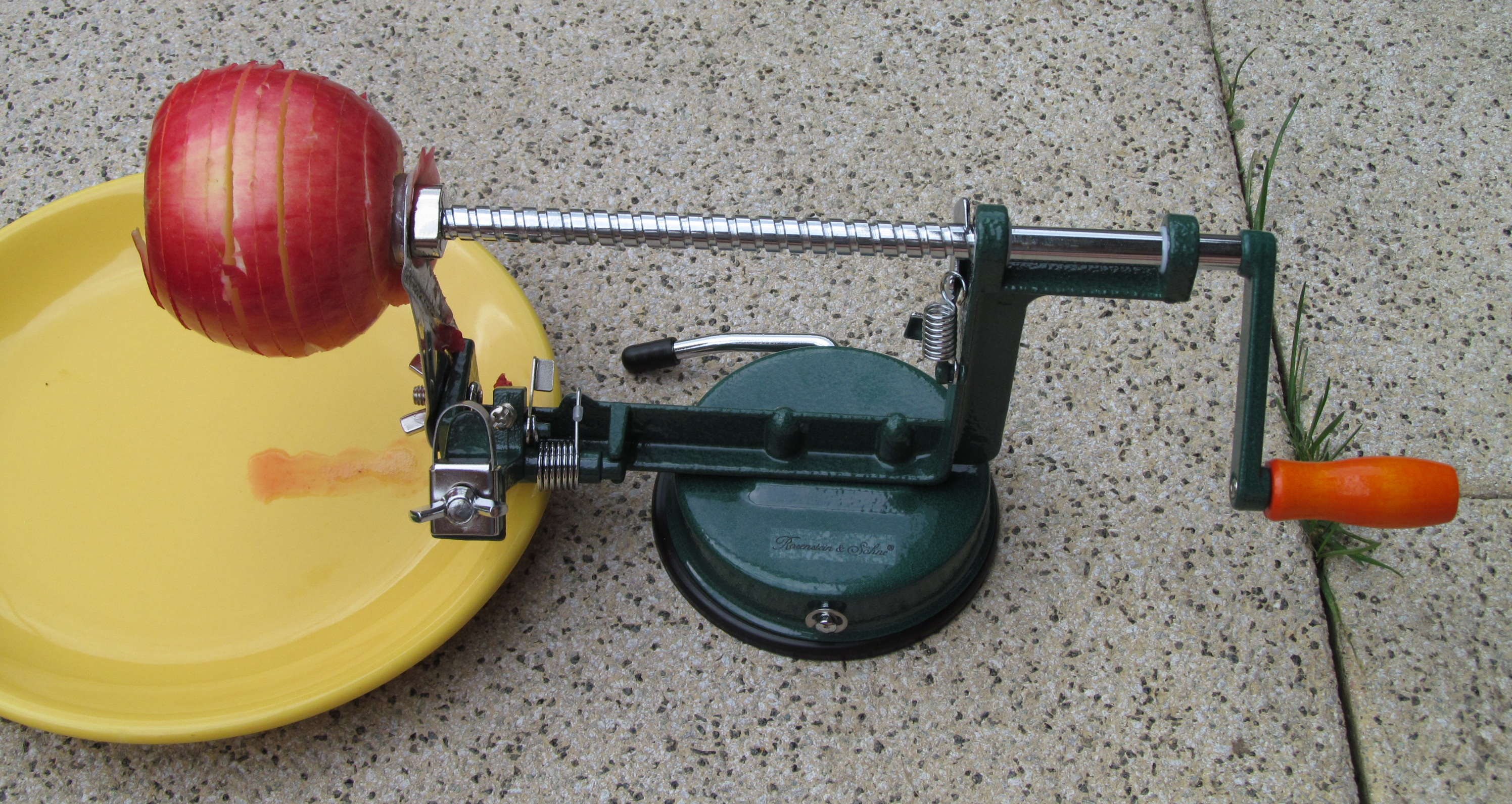 Apple Peeler